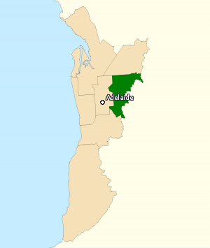 This image incorporates data that is: © Commonwealth of Australia (Australian Electoral Commission) 2009 Division of Sturt 2010